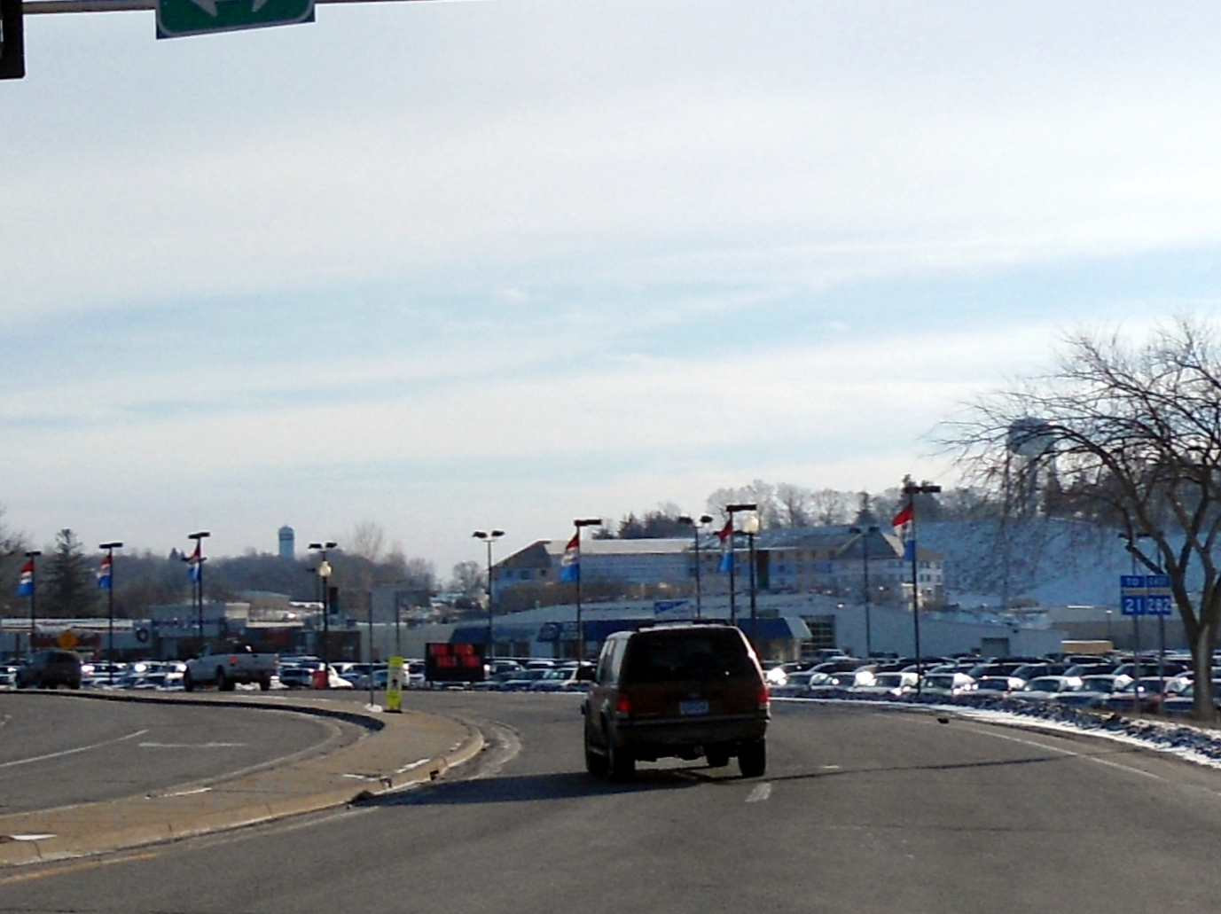 MN 282 connects to MN 21 from US 169 in Jordan, MN